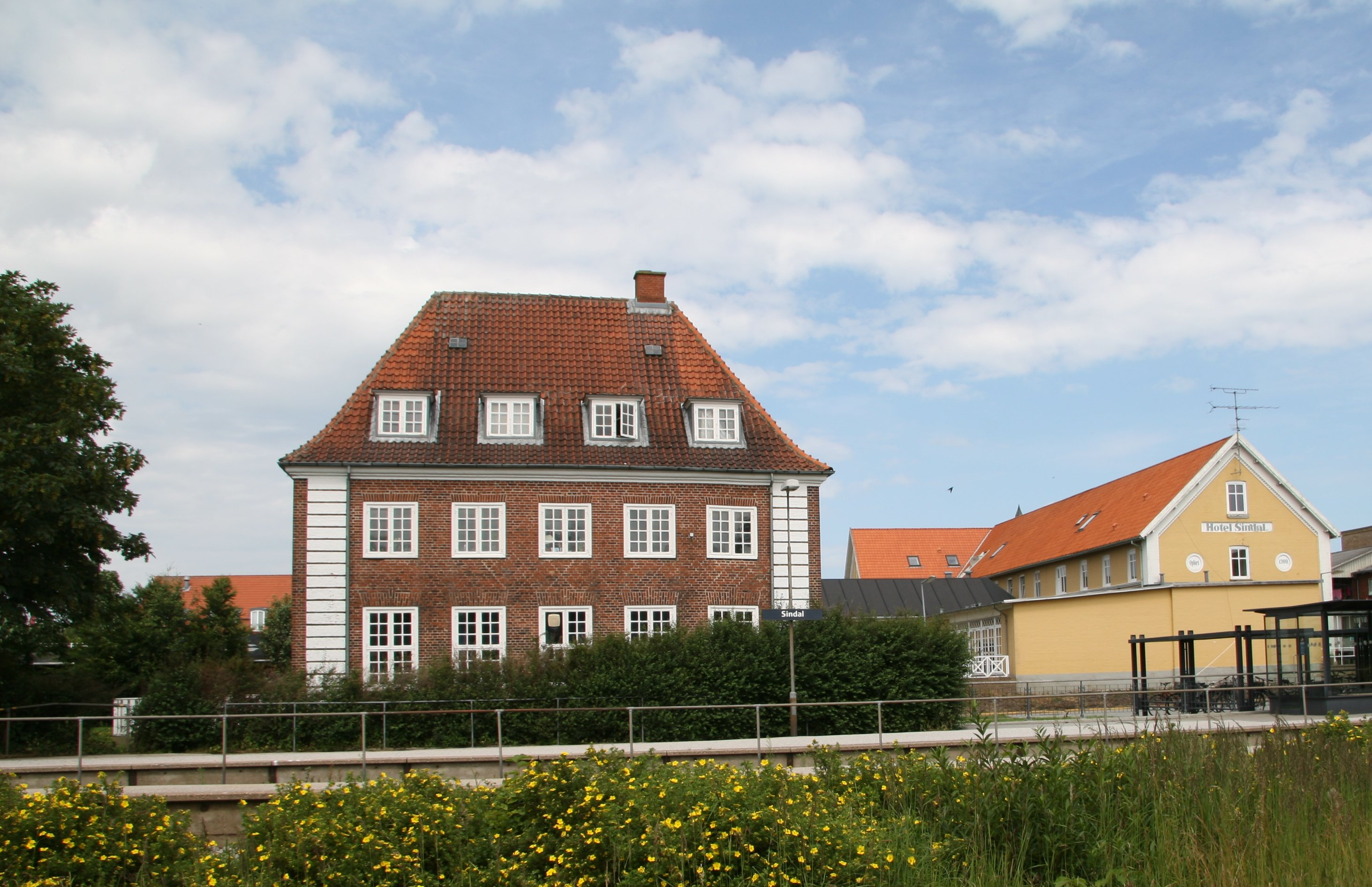 The old post office in Sindal, Northern Jutland, Denmark.